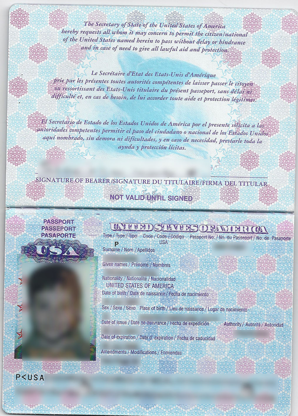 Prebiometric US Passport. Was invalidated upon passport renewal. The invalidation is evident by two holes punched in machine readable area.